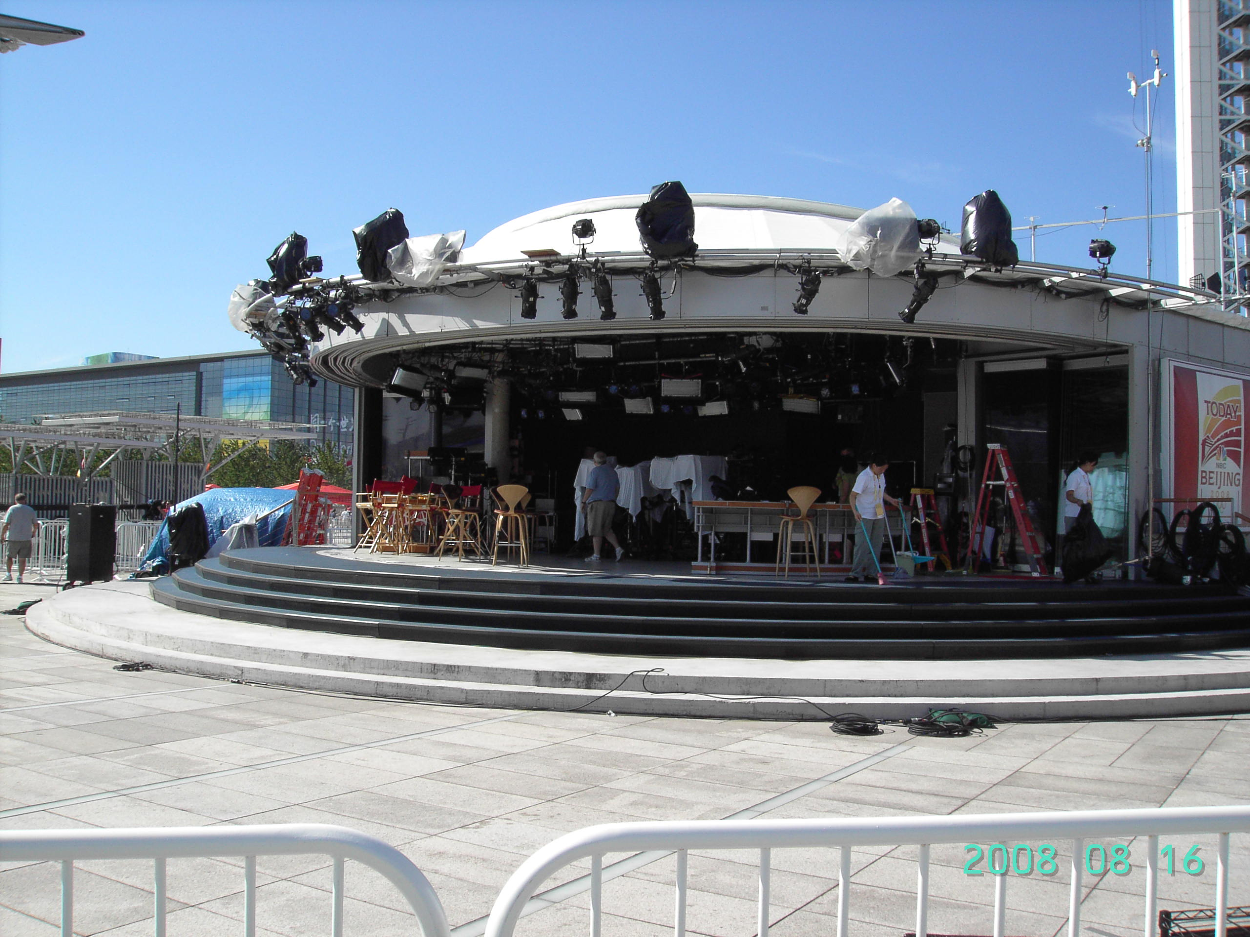 《今天》2008北京奥运会期间在北京奥林匹克公园内搭建的户外演播室